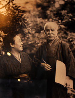 Japanese artist Nakamura Fusetsu（1866－1943） and his wife Ito.